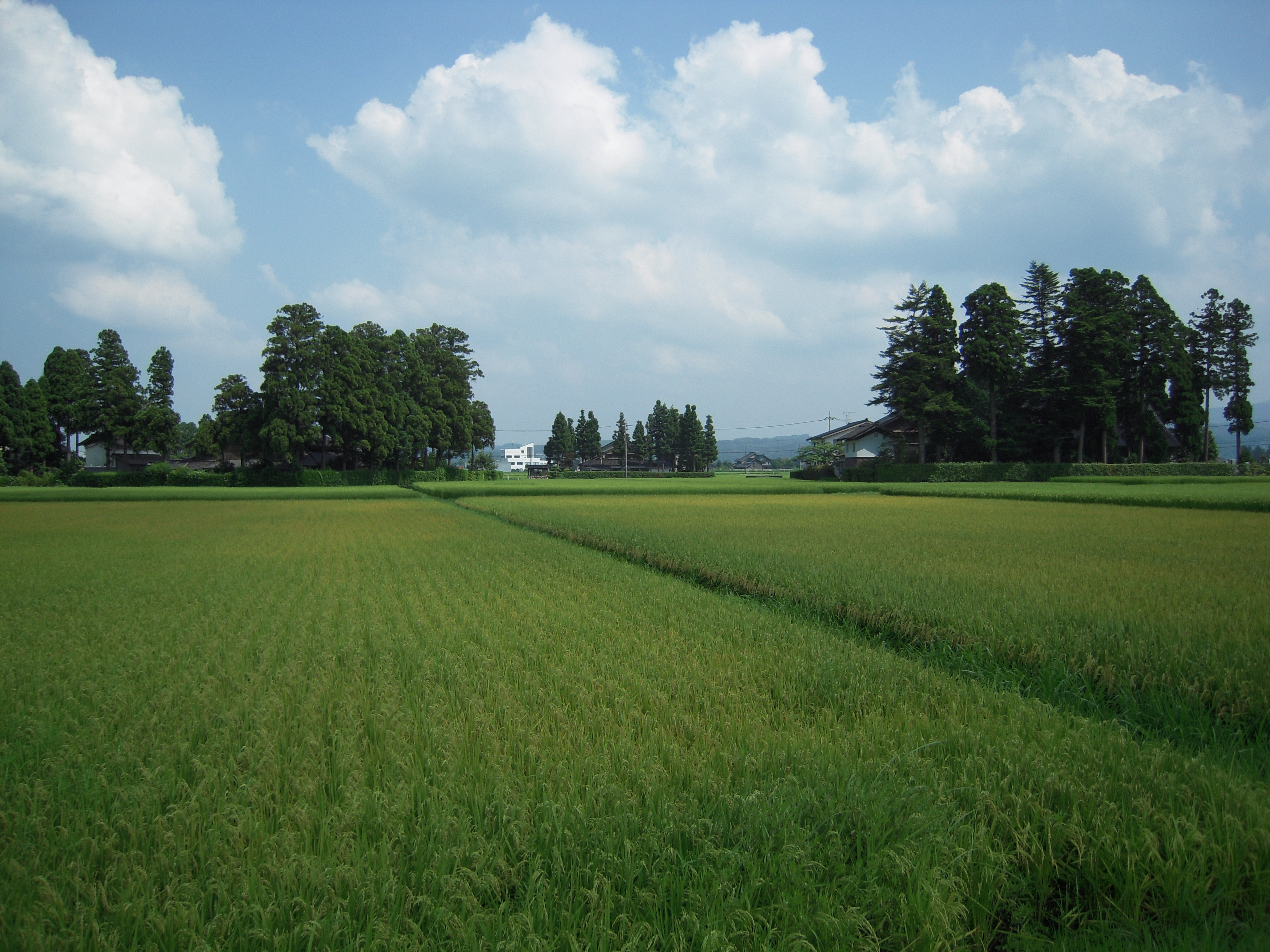 Sankyoson landscape, Tonami City, Toyama, Japan